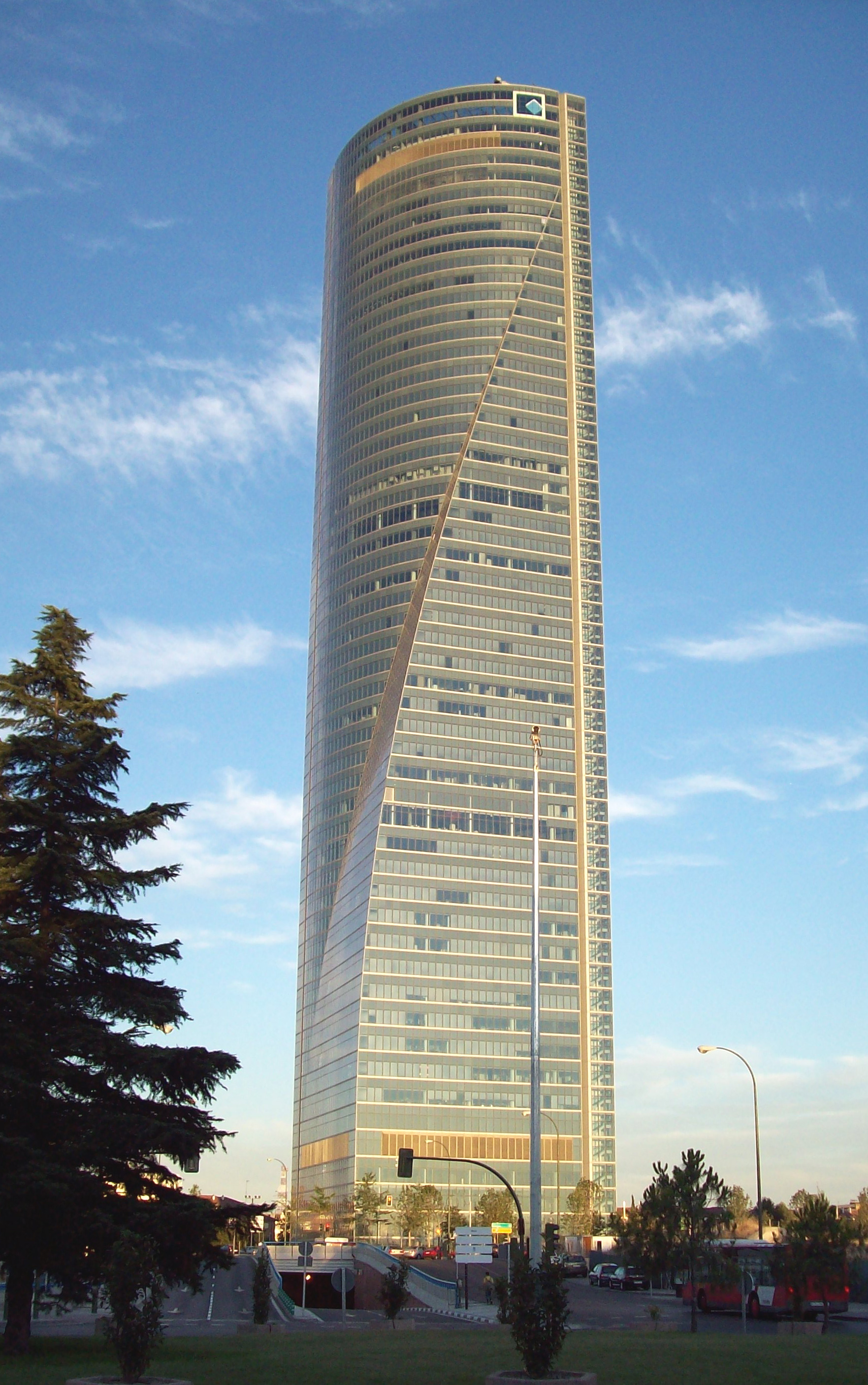 View of Torre Espacio in Cuatro Torres Business Area in Madrid (Spain).